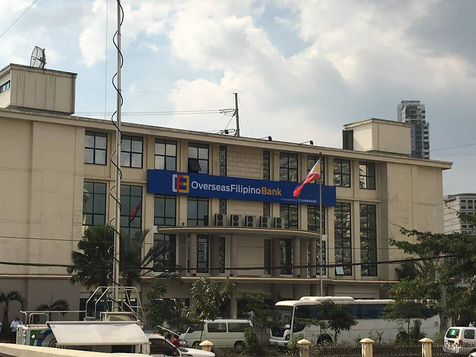 Front of the Overseas Filipino Bank Head Office Building during the launching of the Overseas Filipino Bank by President Rodrigo R. Duterte on January 18, 2018.